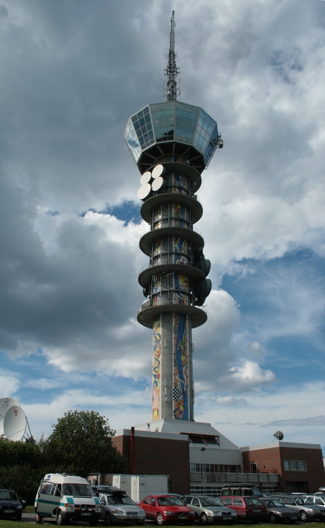 Tyholttårnet in july 2008